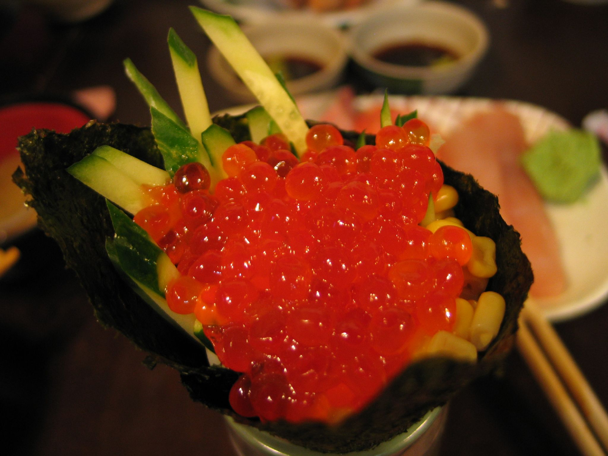 Ikura (salmon roe) on a sushi roll.